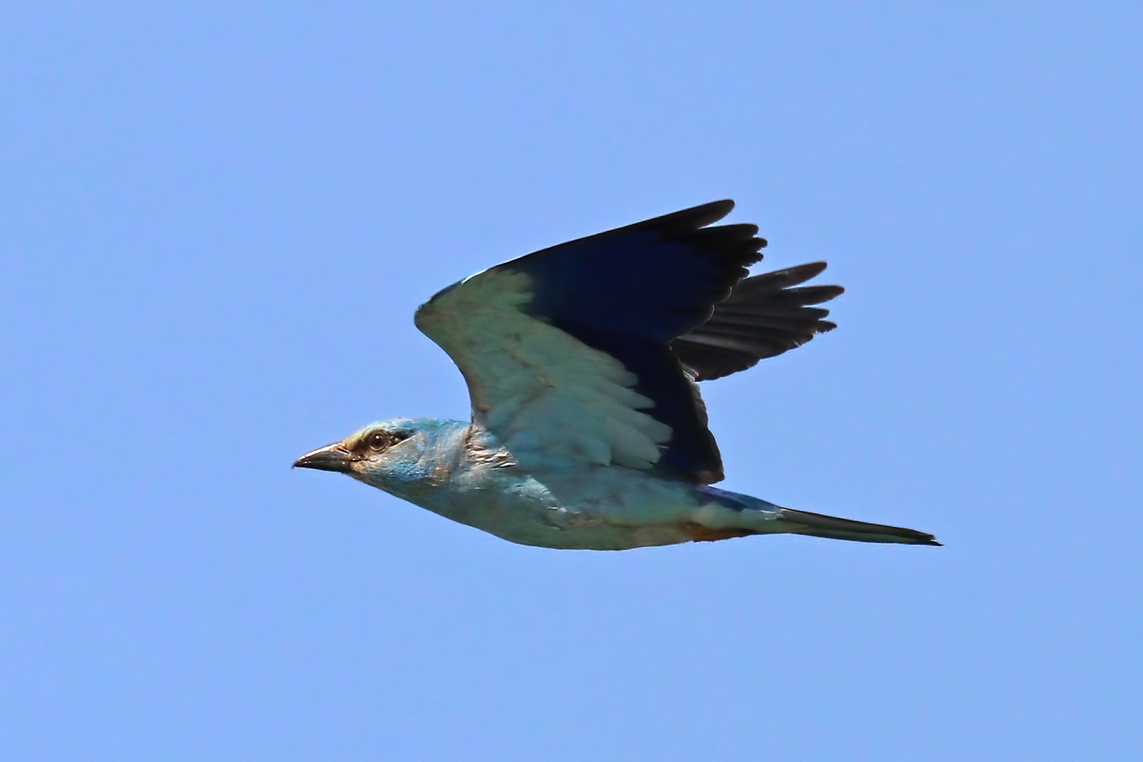 European roller (Coracias garrulus), near Kecskemét, Hungary